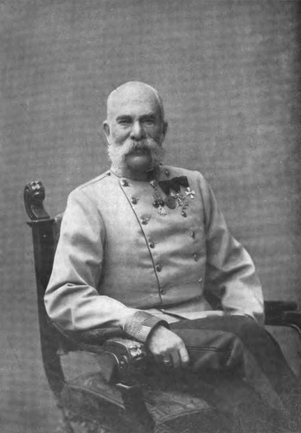 His Imperial Majesty the Emperor of Austria and King of Hungary